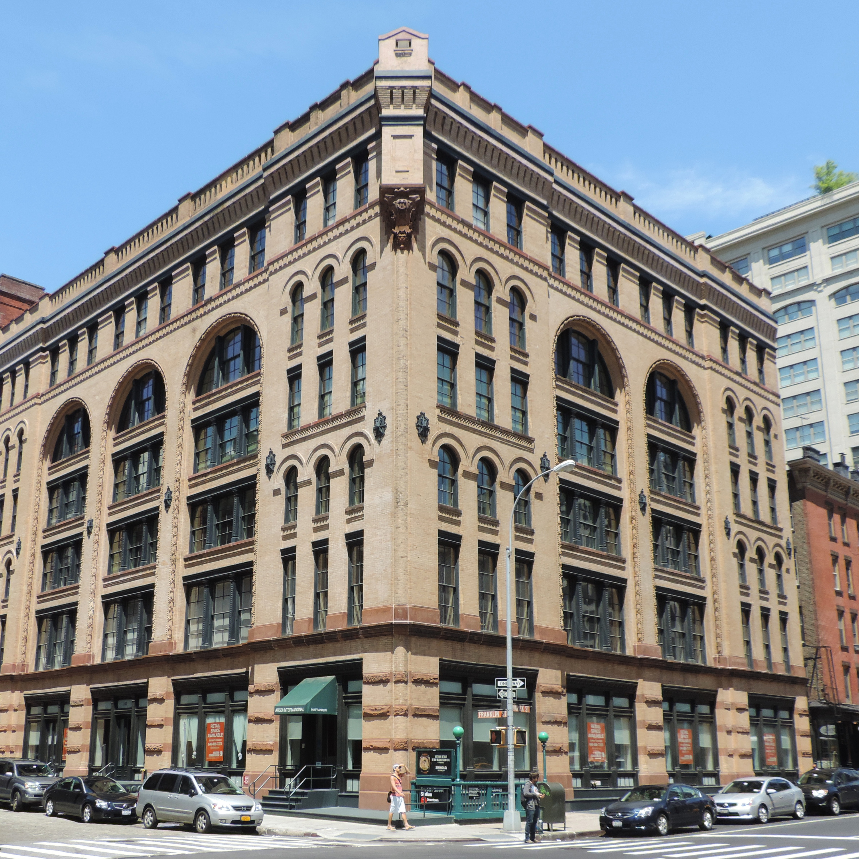 Looking northwest across Franklin and Varick Streets on a sunny midday.